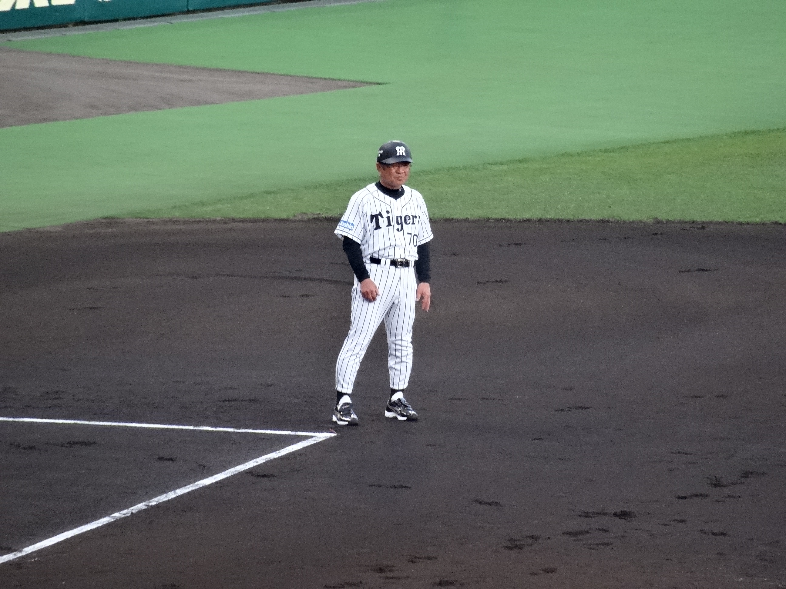 Nobuhiro Takashiro, coach of the Hanshin Tigers, at Hanshin Koshien Stadium.